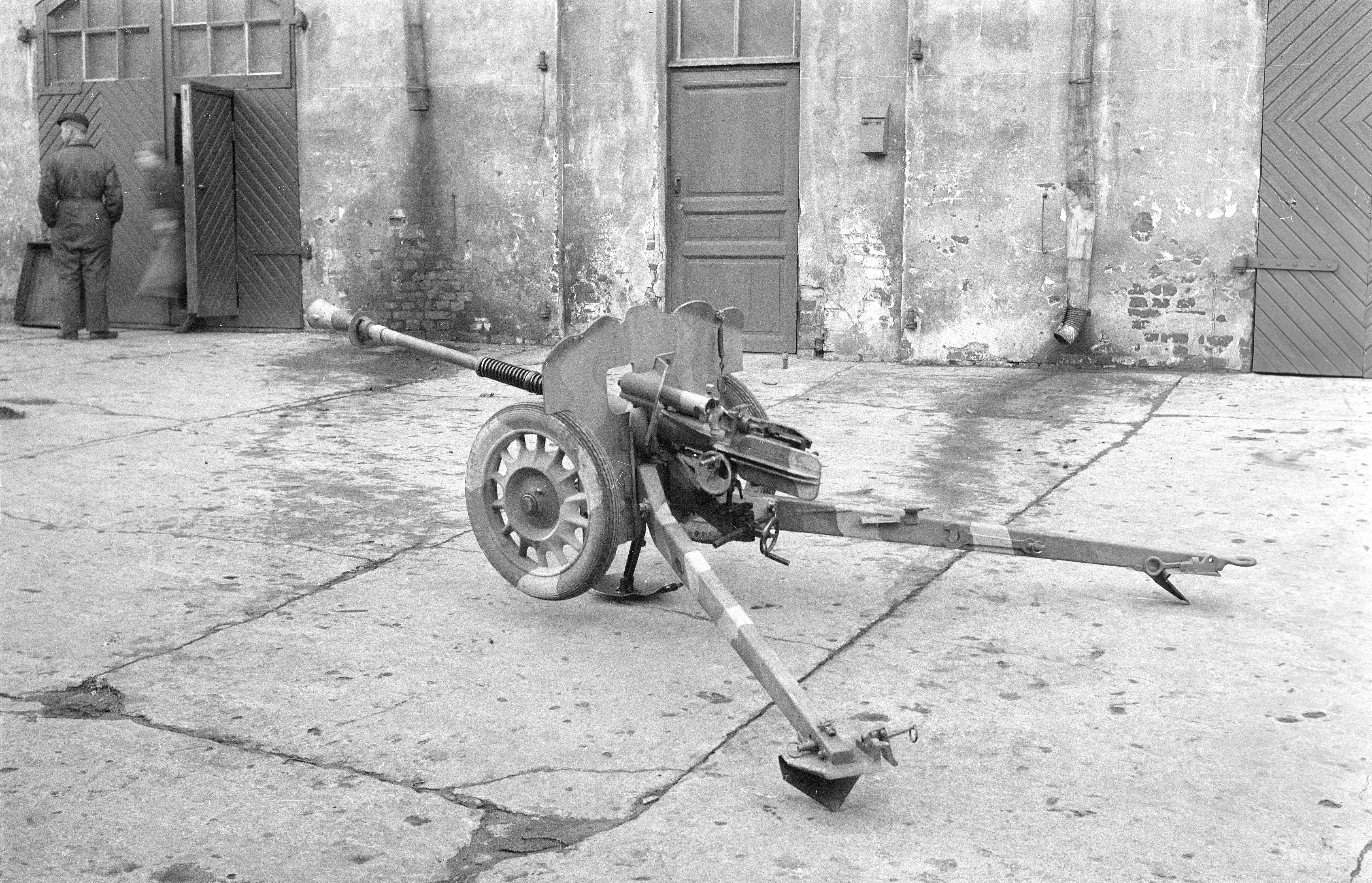 French 25 mm Hotchkiss anti-tank gun in Finnish service. French designation was Canon léger de 25 antichar SA-L modèle 1937. Finnish designation of the gun was 25 PstK37.